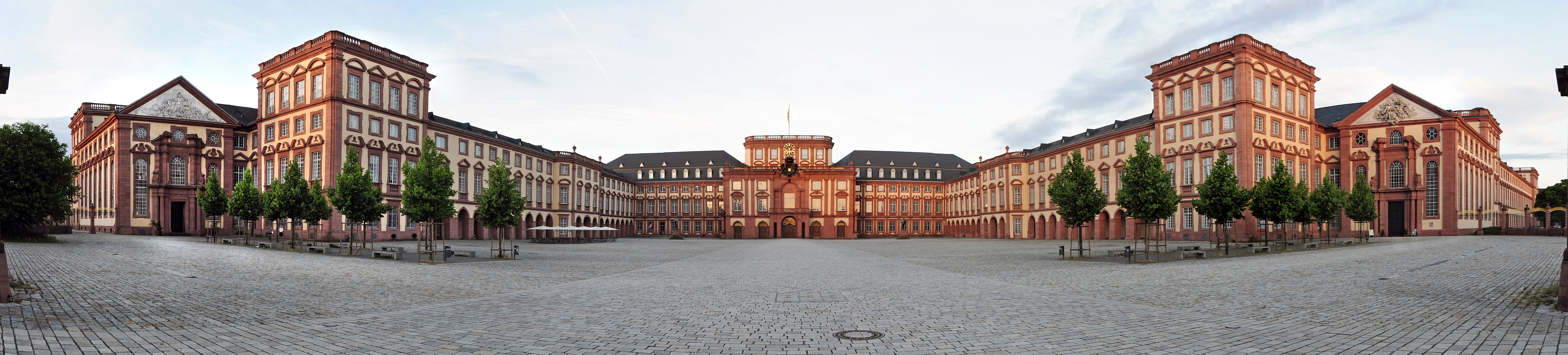 Mannheim Palace, panoramic view, 180 degrees - 5 pictures stitched